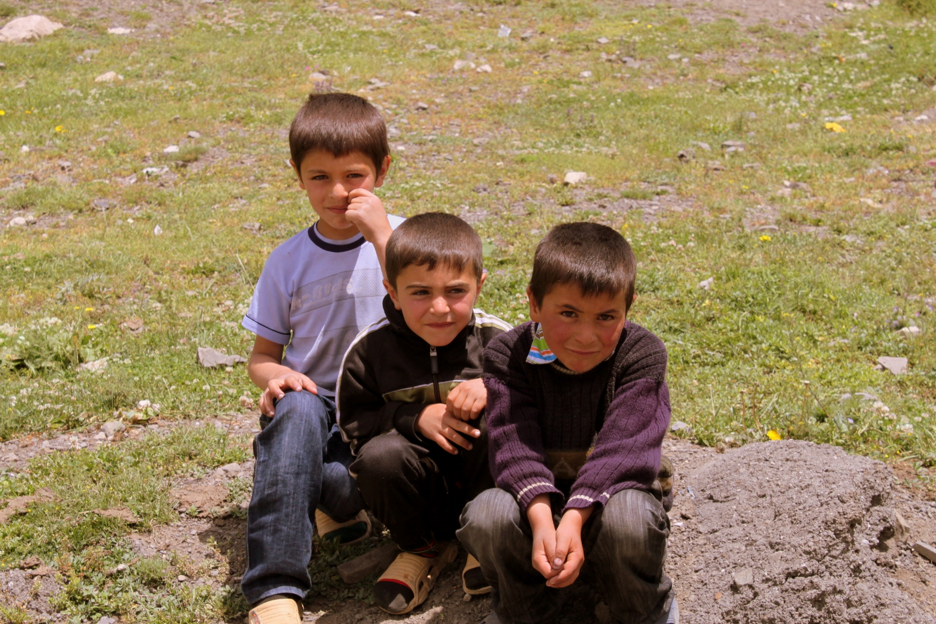 Assad, Elmir, Ekrem children from the village of Guba region Khinalig Azerbaijan